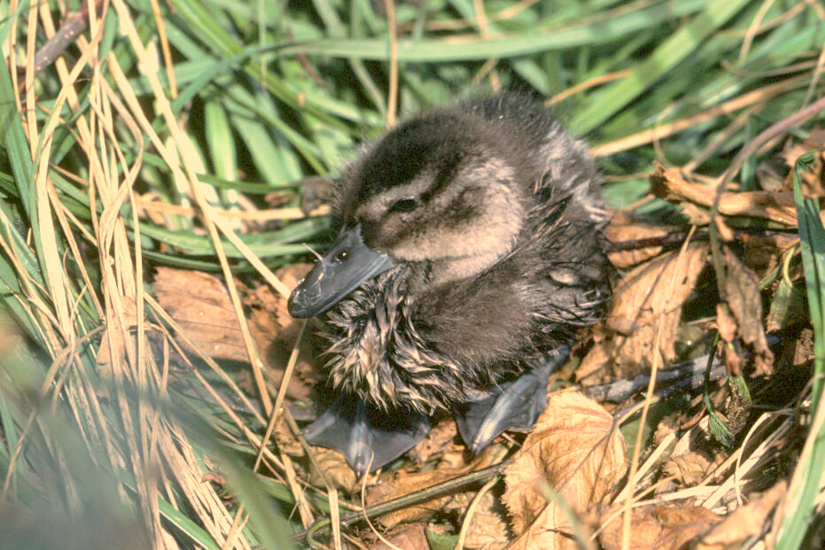 Northern Pintail (Anas acuta) chick